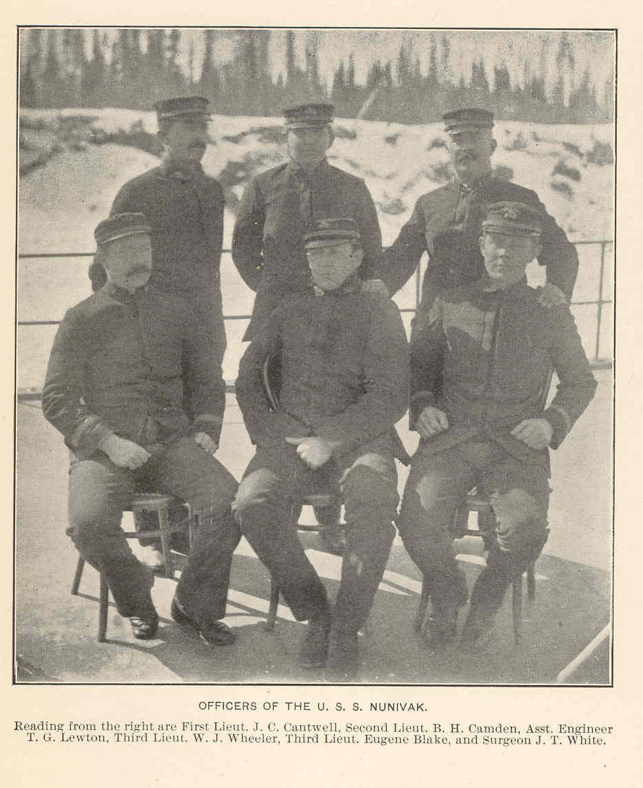 Officers of the U. S. S. Nunivak. Reading from the right are First Lieut J. C. Cantwell, Secont Lieut. B. H. Camden, Asst. Engineer T. G. Lewton, Third Lieut. W. J. Wheeler, Third Lieut. Eugene Blake, and Surgeon J. T. White Subject: Ships officers, Ship physicians Tag: People